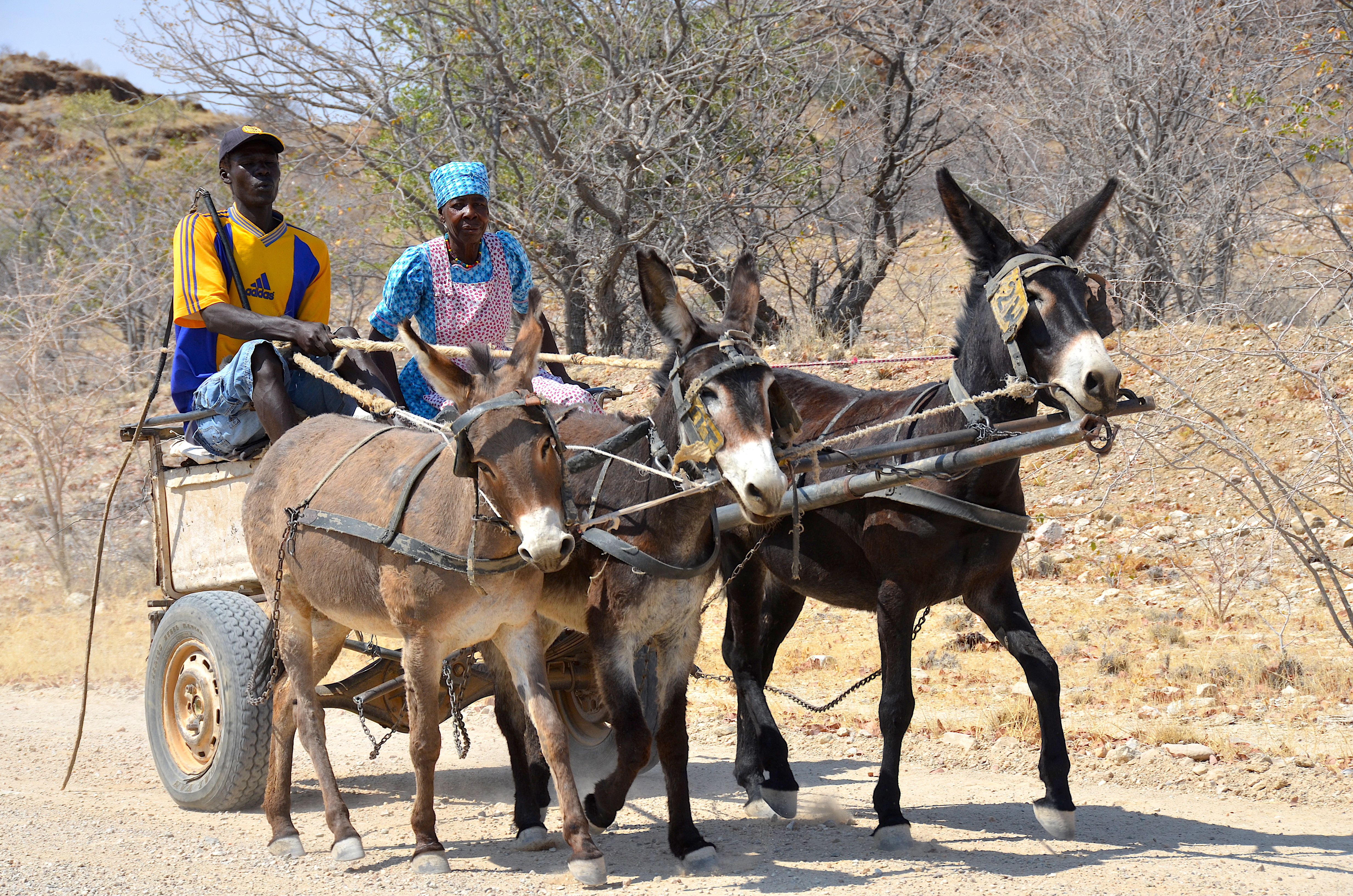 Damara with donkey cart in Namibia